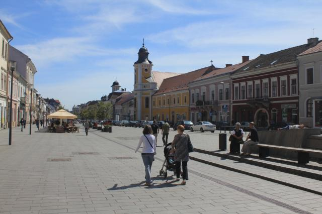 Cluj-Napoca : Eroilor Boulevard